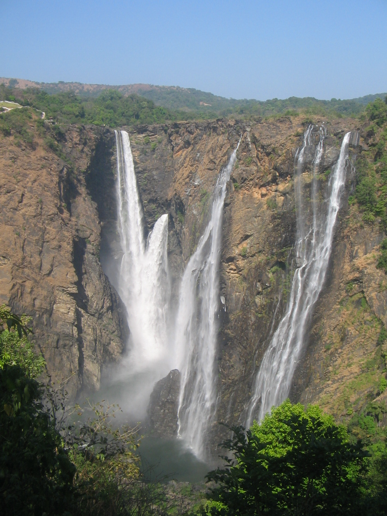 My own image Jog Falls